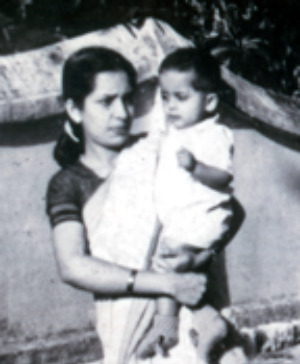 This is an image of a one year old Richard Crasta being held by his mother, Christine.